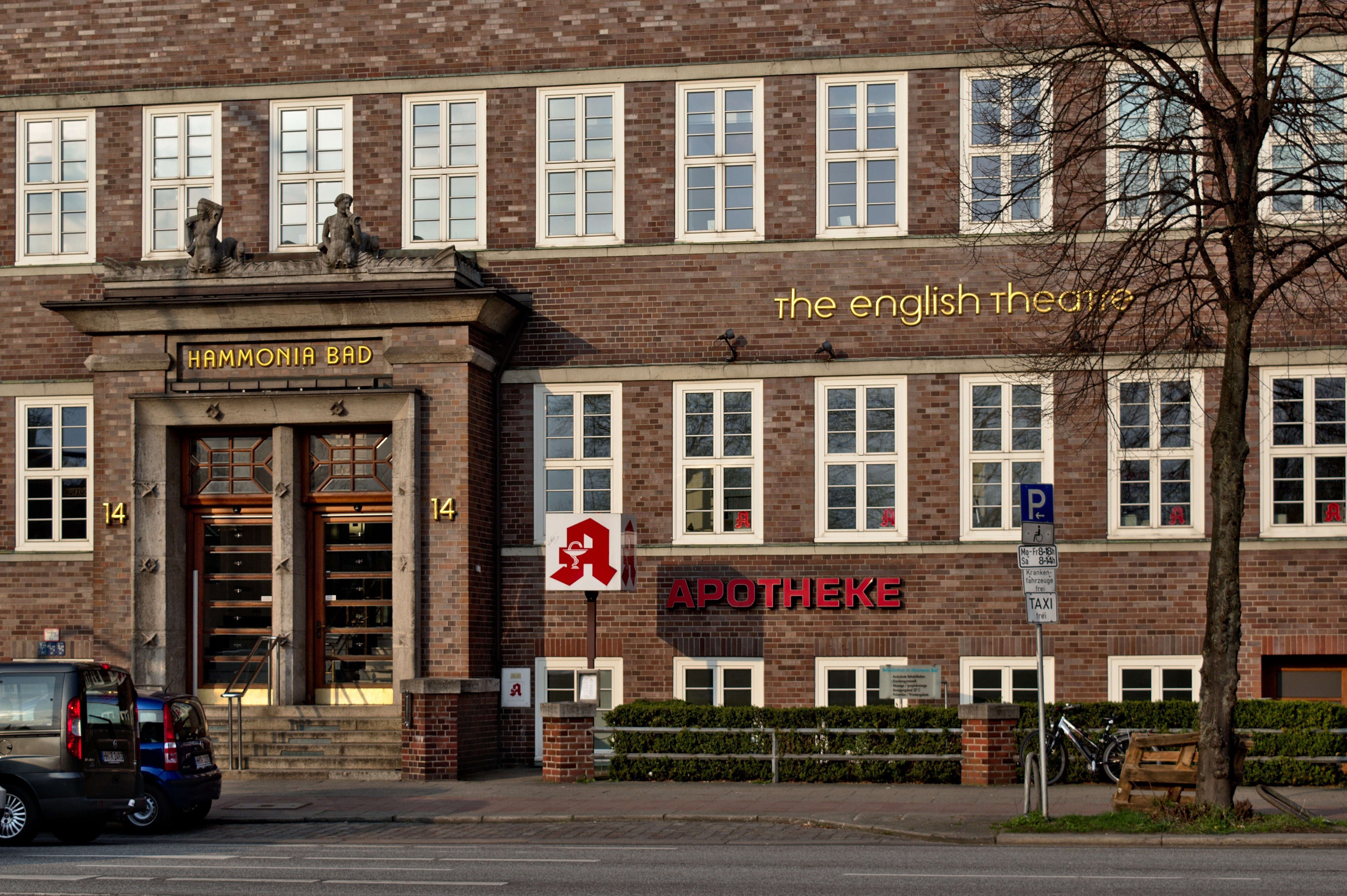 Entrance to the Hammonia-Bad, a former public bath and office building, now hosting numerous doctor's practices, a pharmacy, and the English Theatre of Hamburg, on Lerchenfeld 14, Hamburg.This is a photograph of an architectural monument.